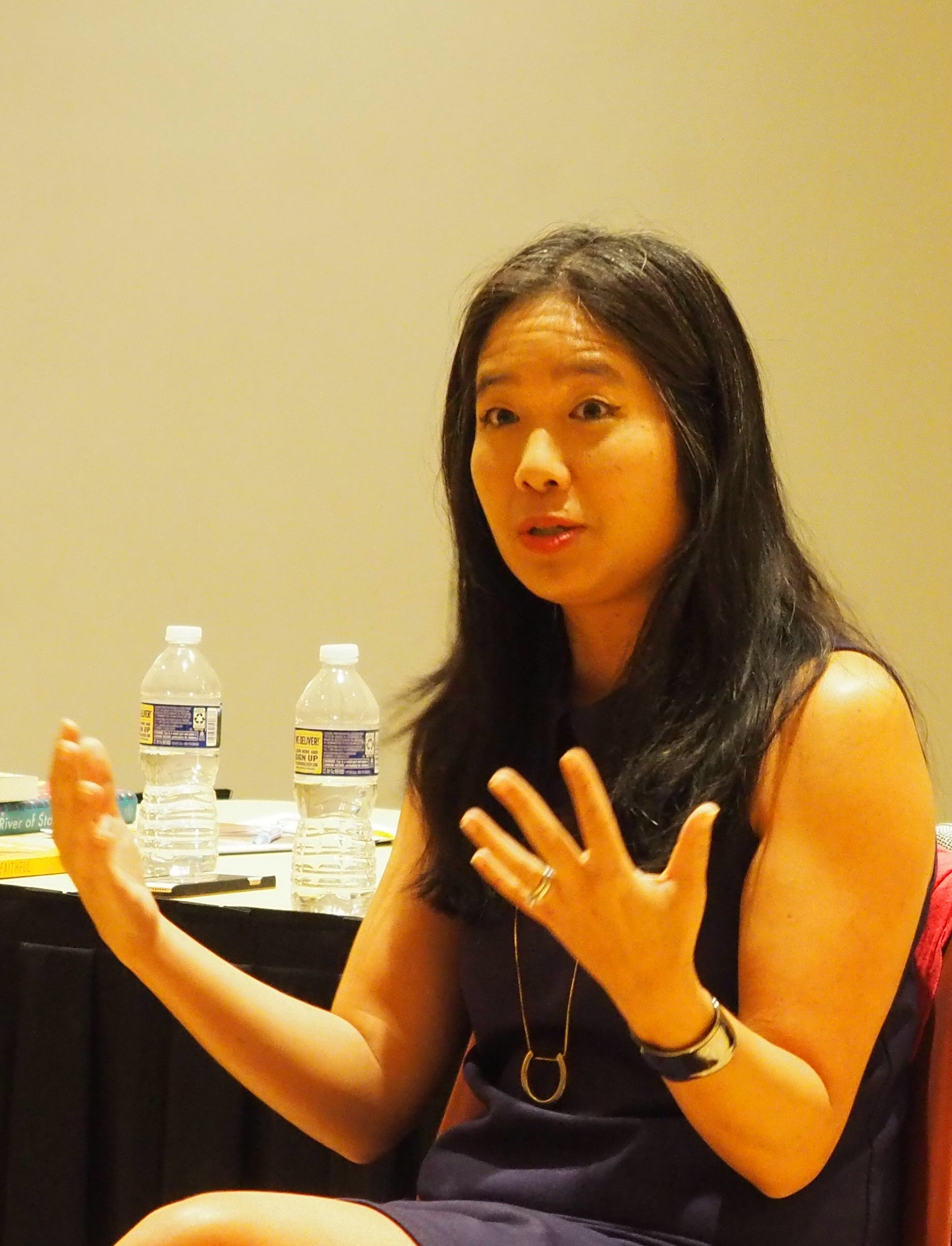 reading at Fall for the Book